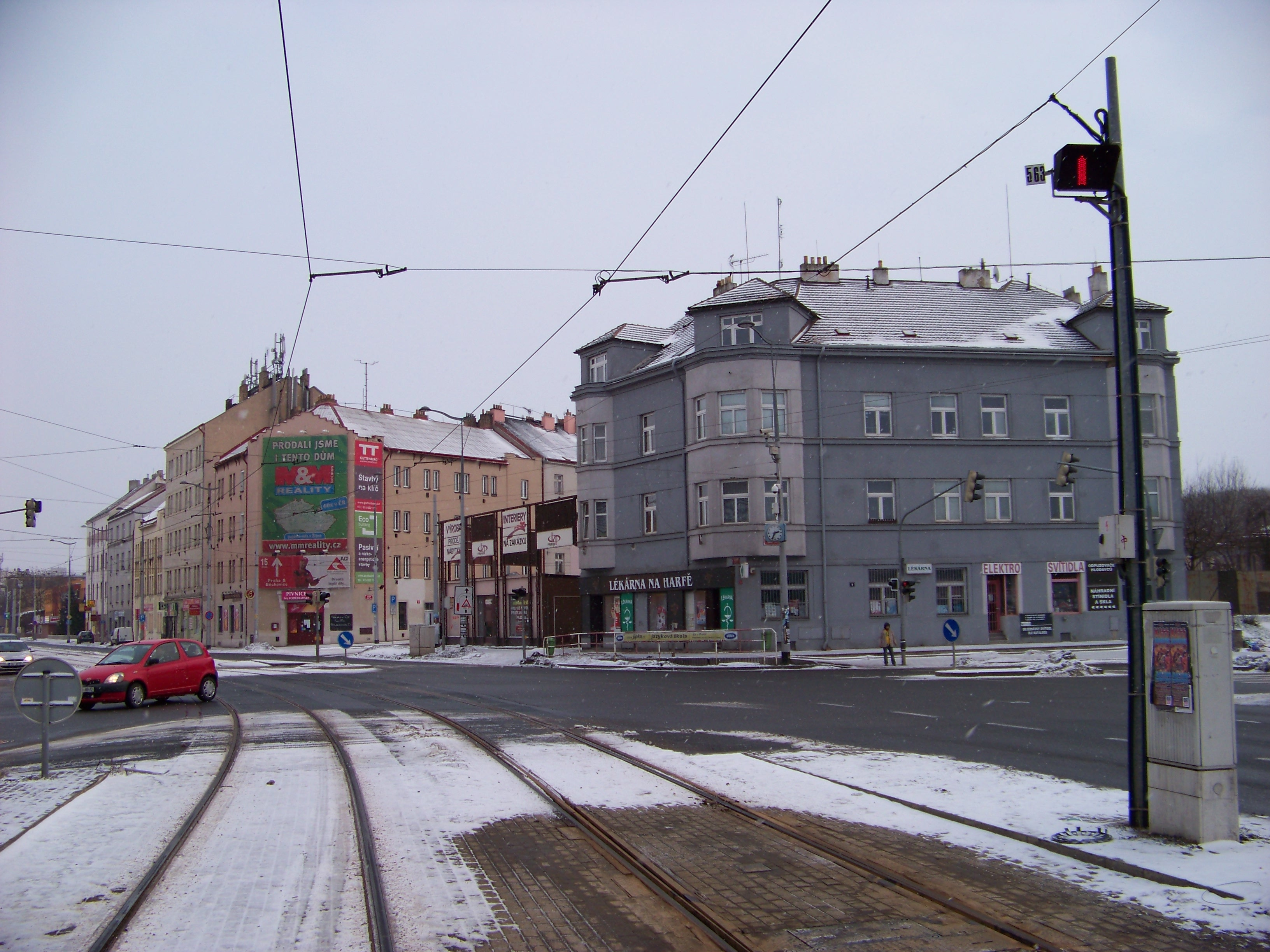 Prague-Vysočany, the Czech Republic. Harfa intersection.